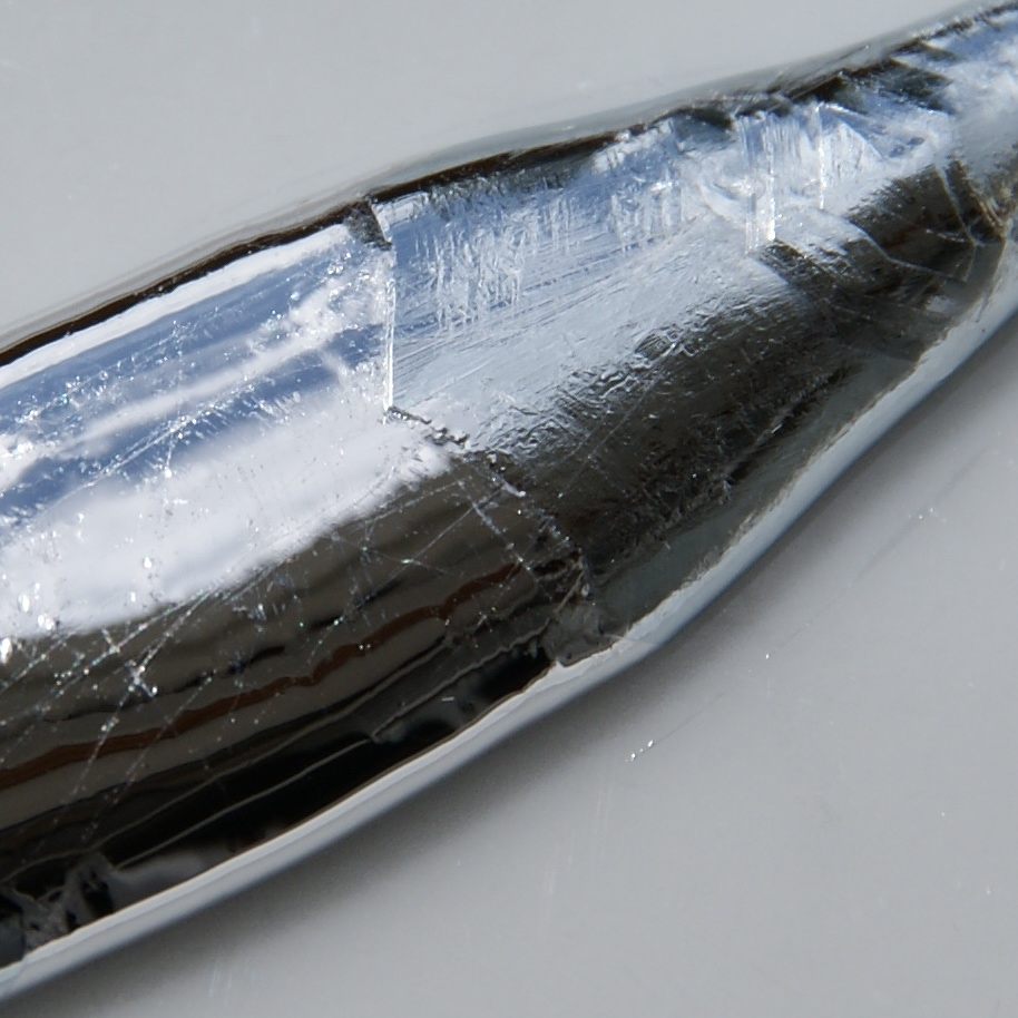 Ultrapure gallium, transition from liquid to solid, 1 x 2 cm.